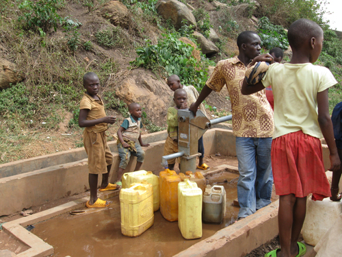 Photo by: Jon Gosier These photos are from Kigali, Rulindo and Kicukiro in Rwanda, Africa. They've been reduced in size for the web. Larger versions available upon request. Please credit me under the attached Creative Commons License if you decide to use them.